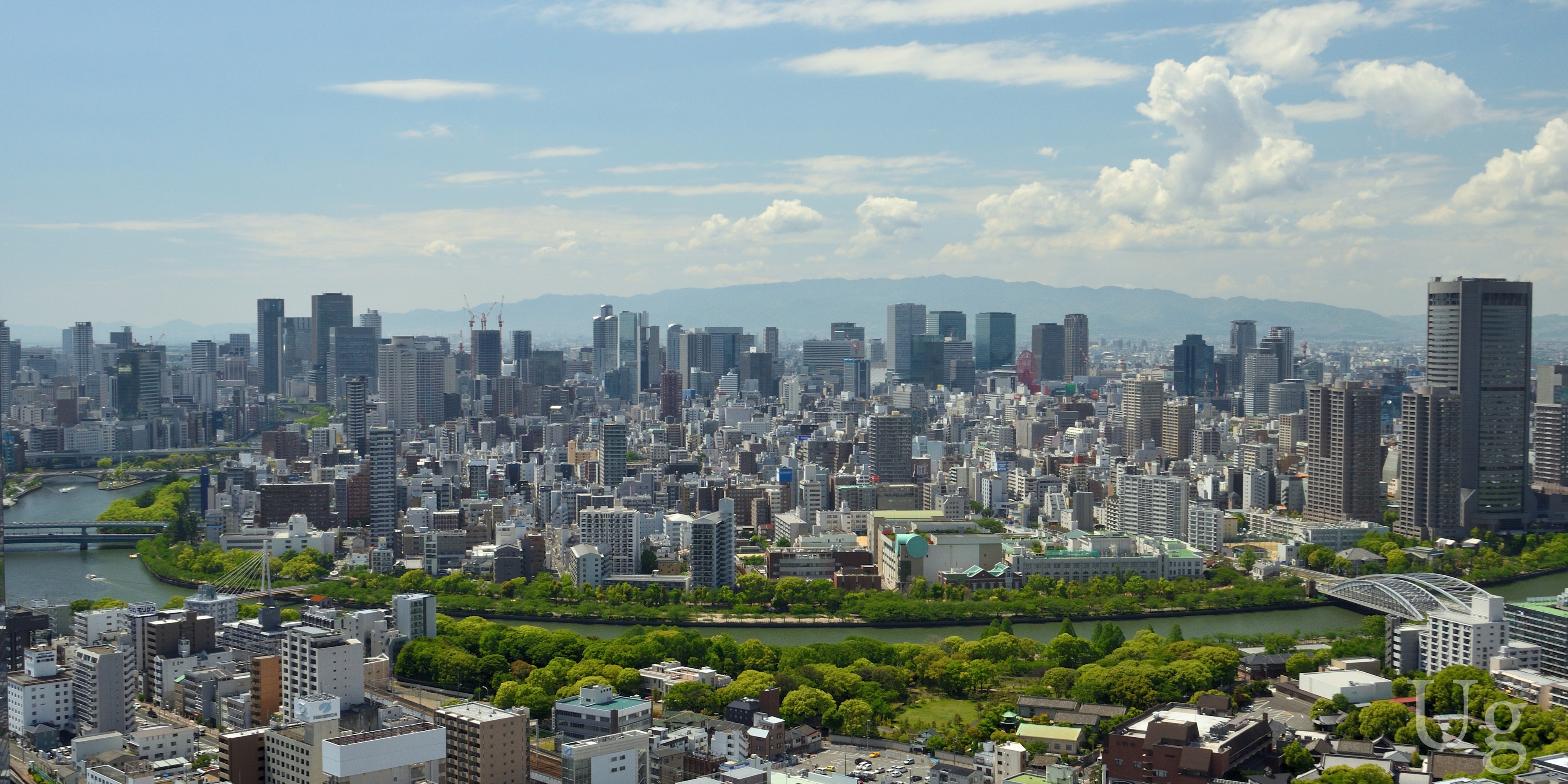 This is Osaka-Skyline